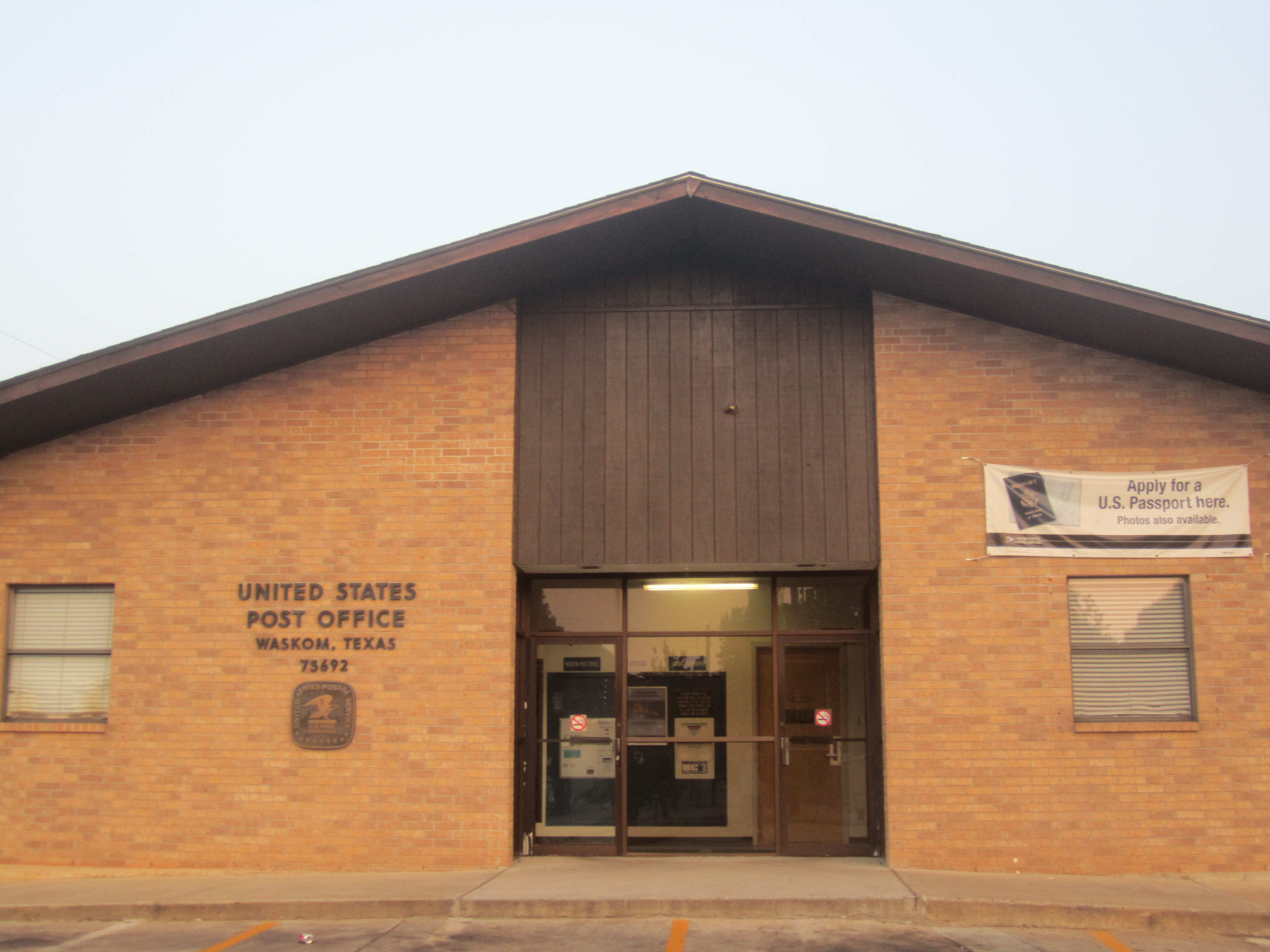 I took photo with Canon camera in Waskom, TX.